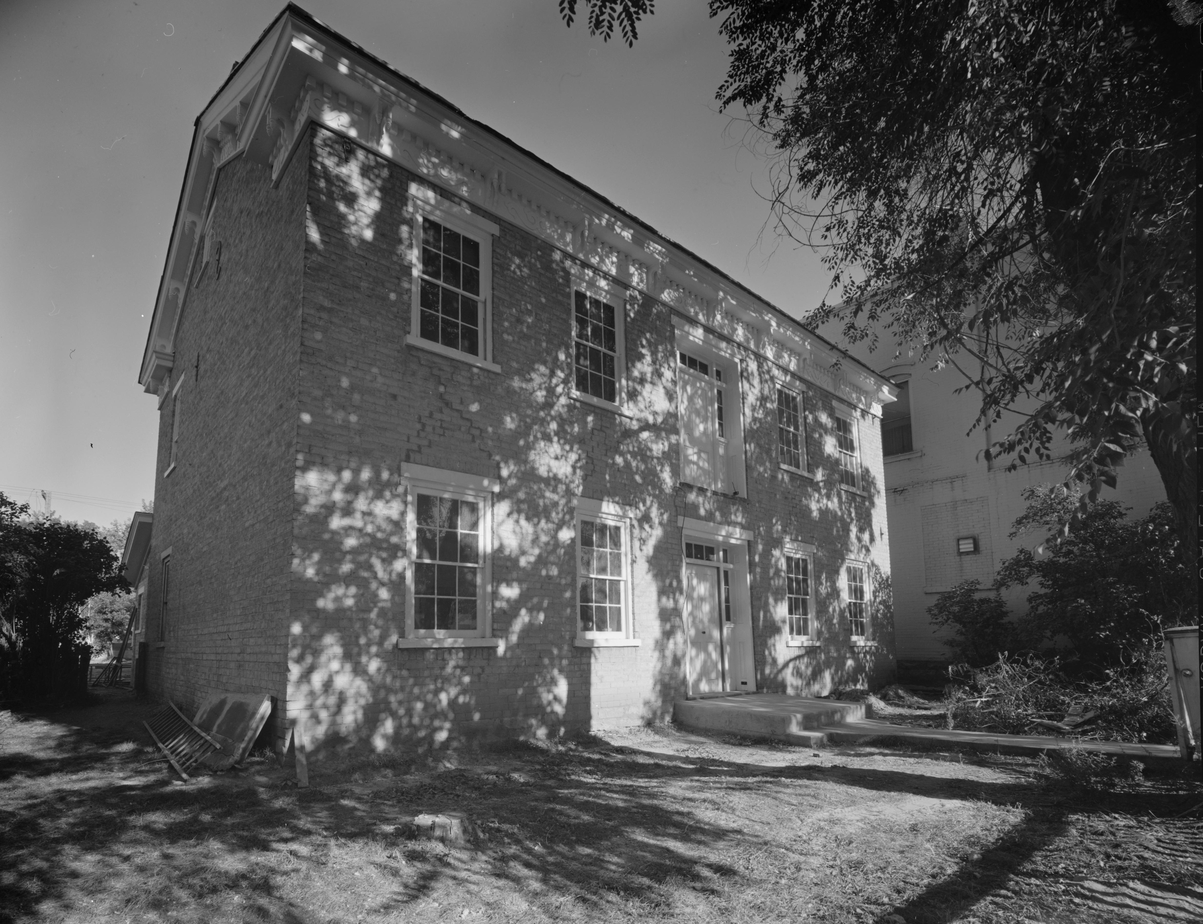 Front of the Canute Peterson House, located at 10 N. Main Street in Ephraim, Utah, United States. Built in 1869, the house is listed on the National Register of Historic Places.